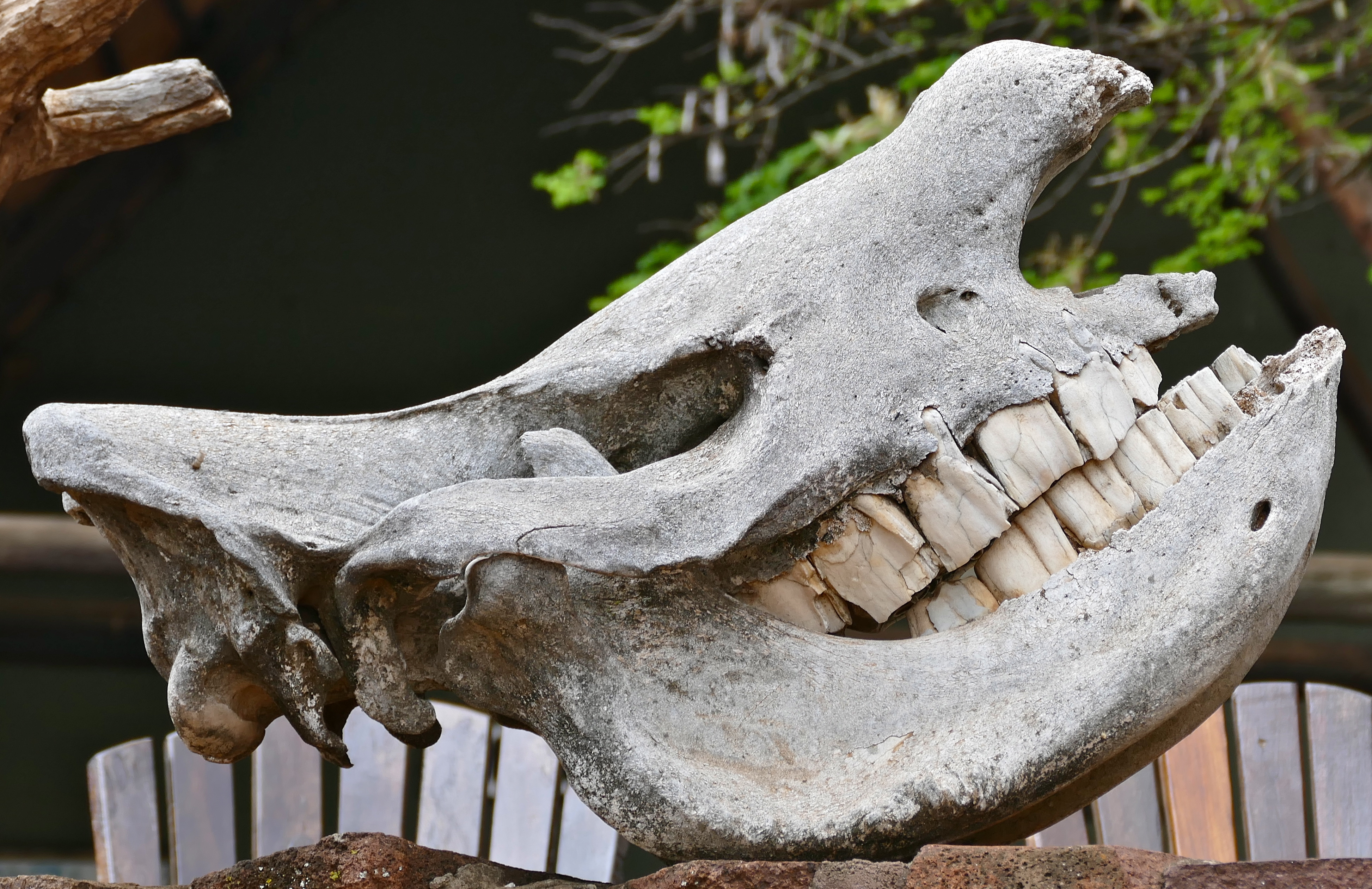 Ndlovu Camp, Hlane Royal National Park, SWAZILAND